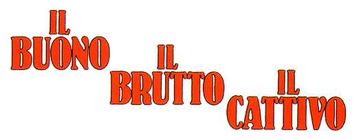 Logo of the Movie The Good, The Bad, The Ugly